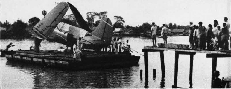 A Curtiss SB2C-5 Helldiver is delivered to the Royal Thai Air Force in 1951. The Helldivers were transported to Bangkok on board the U.S. escort carrier USS Cape Esperance (T-CVE-88) and then had to be taken on barges to their destination airfield.